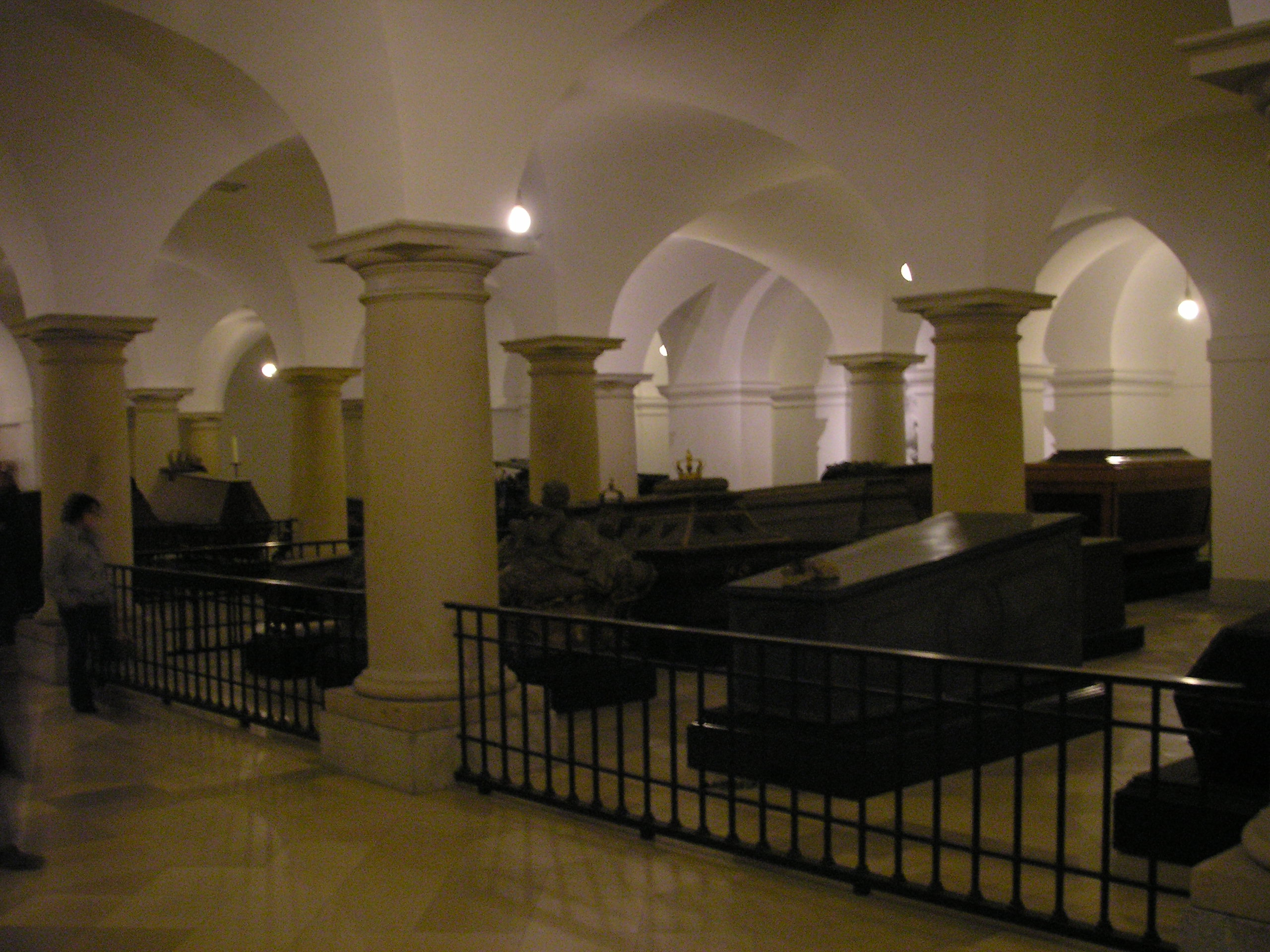 Description: View of royal coffins at the Hohenzollern crypt at Berliner Dom. Source: self-made, I release it into the public domain. Gryffindor 15:36, 11 April 2006 (UTC)